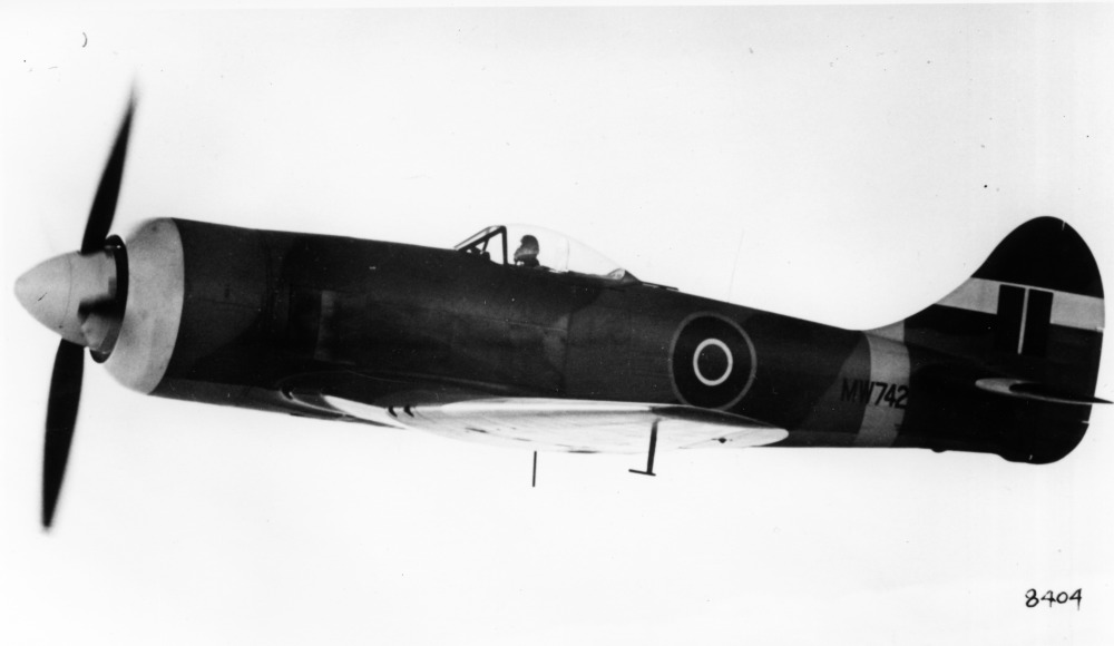 PictionID:42252751 - Title:Hawker Tempest II Hawker Tempest II MW742 - Catalog:15_003282 - Filename:15_003282.tif - ---- Image from the Charles Daniels Photo Collection album "English Aircraft"----PLEASE TAG this image with any information you know about it, so that we can permanently store this data with the original image file in our Digital Asset Management System.----SOURCE INSTITUTION: San Diego Air and Space Museum Archive